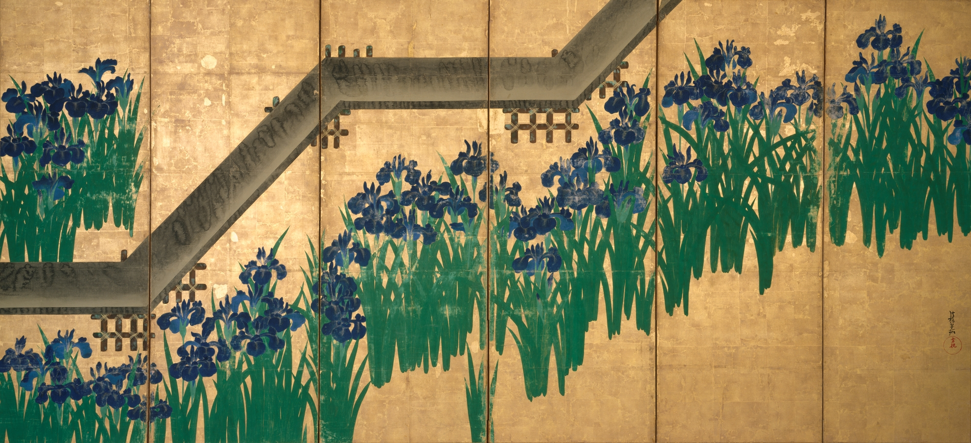 Irises at Yatsuhashi (right) by Ogata Kōrin (Metropolitan Museum of Art)